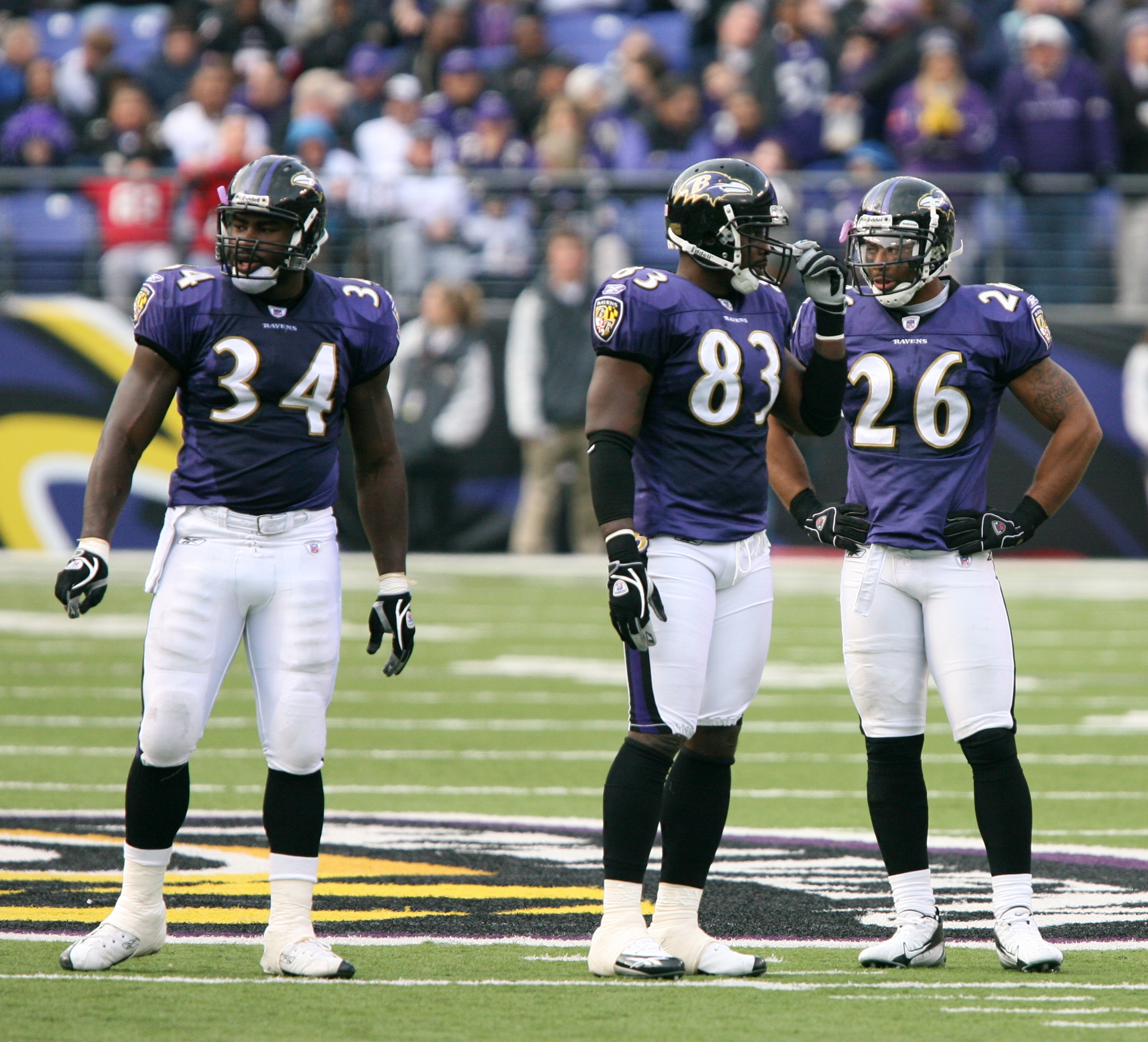 Baltimore Ravens players (left-right): Ovie Mughelli, Daniel Wilcox, and Dawan Landry